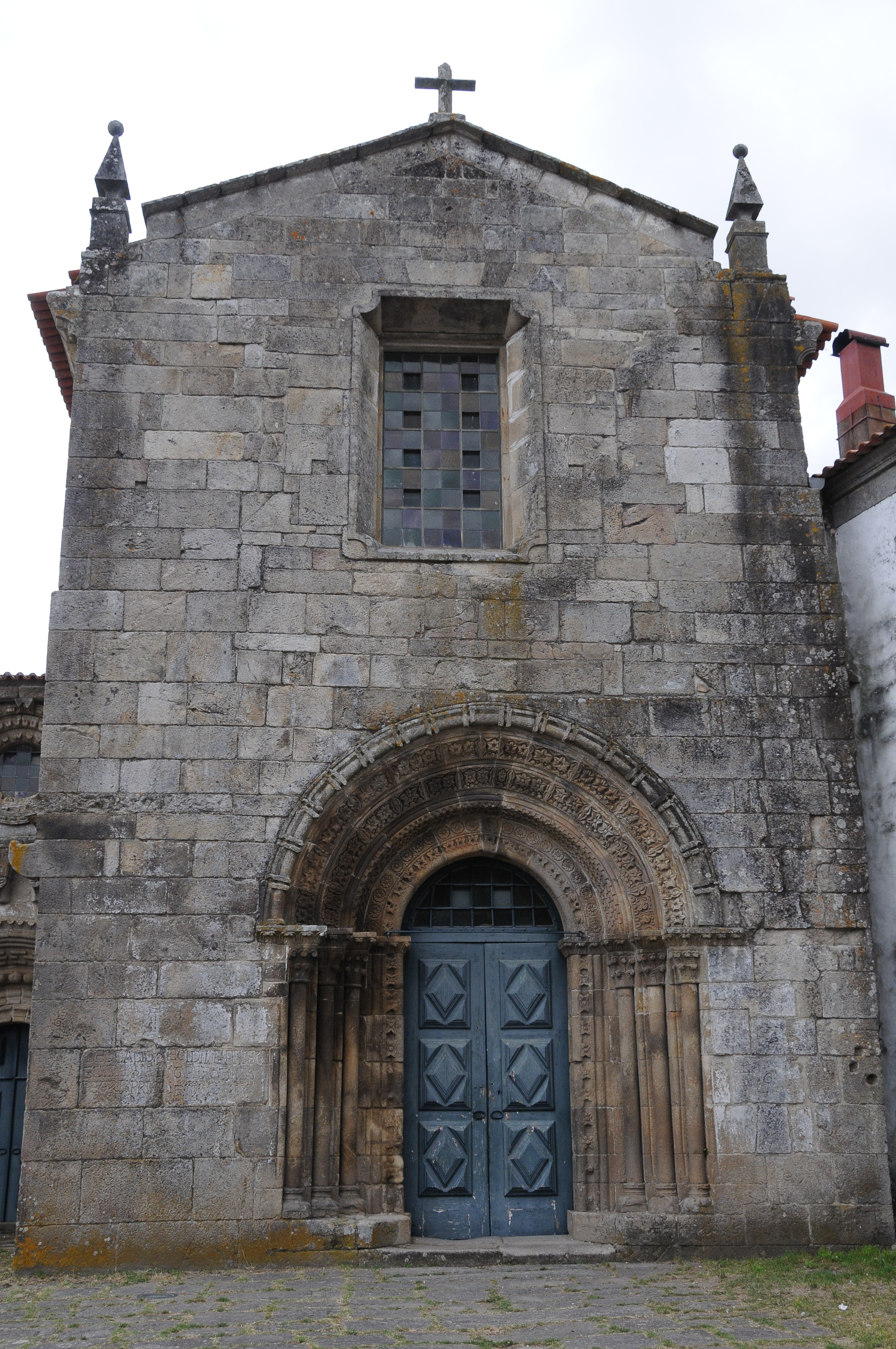 Paderne Church, in Melgaço, Portugal